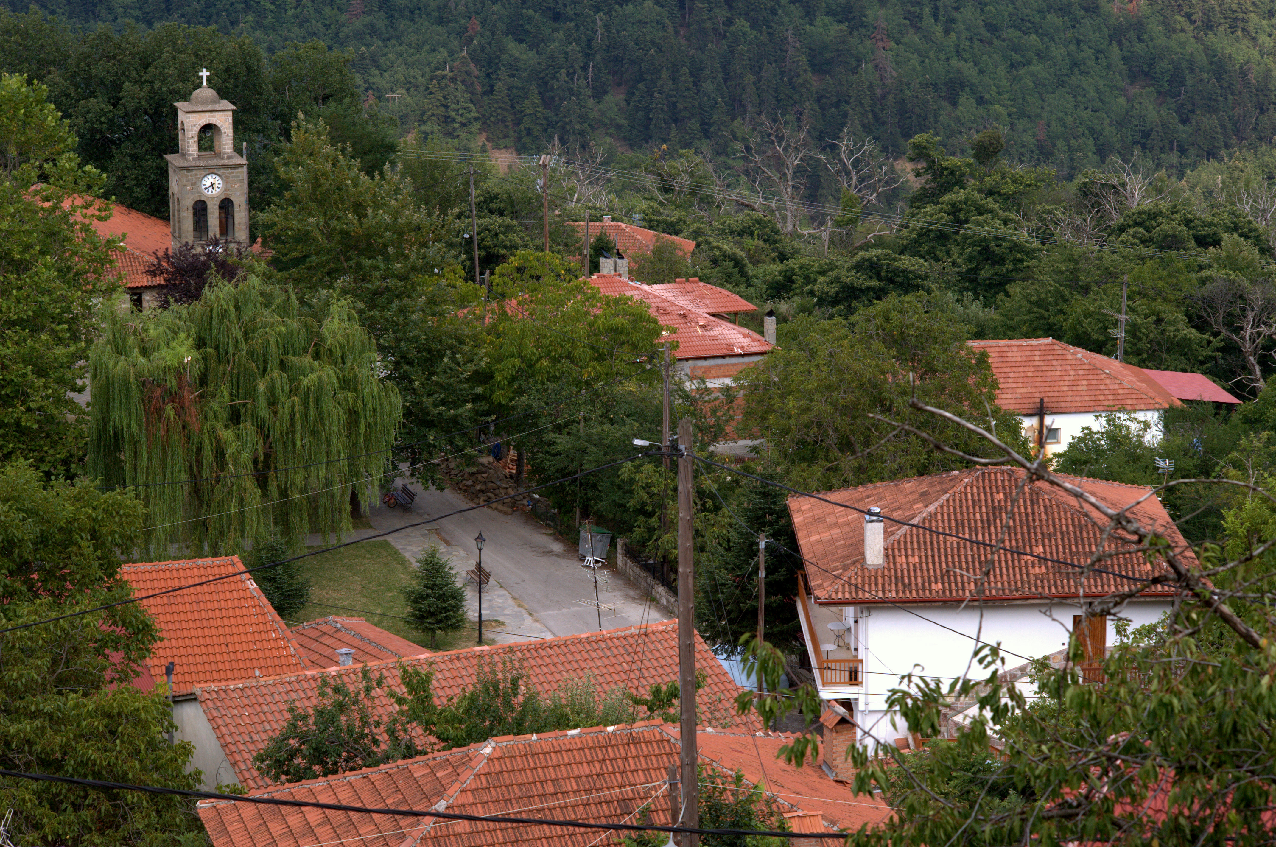 Mavrilo village, top view of main square, Fthiotida, Greece.